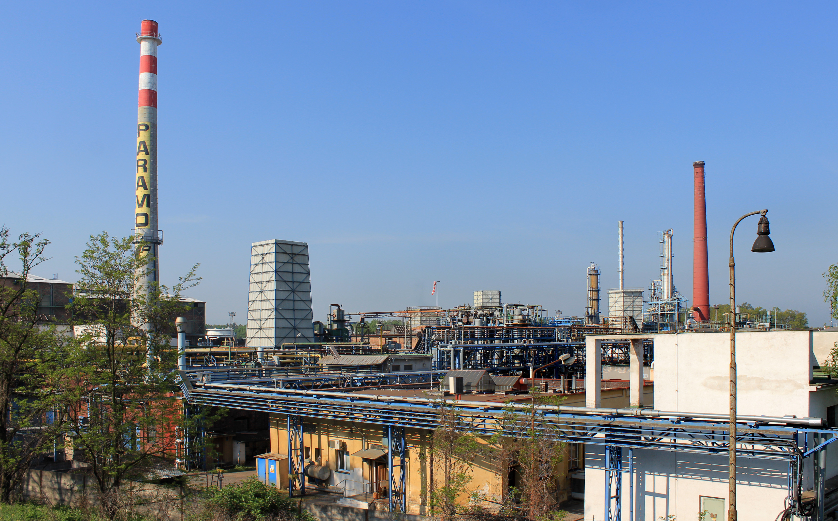 Paramo chemical company in Pardubice, Czech Republic